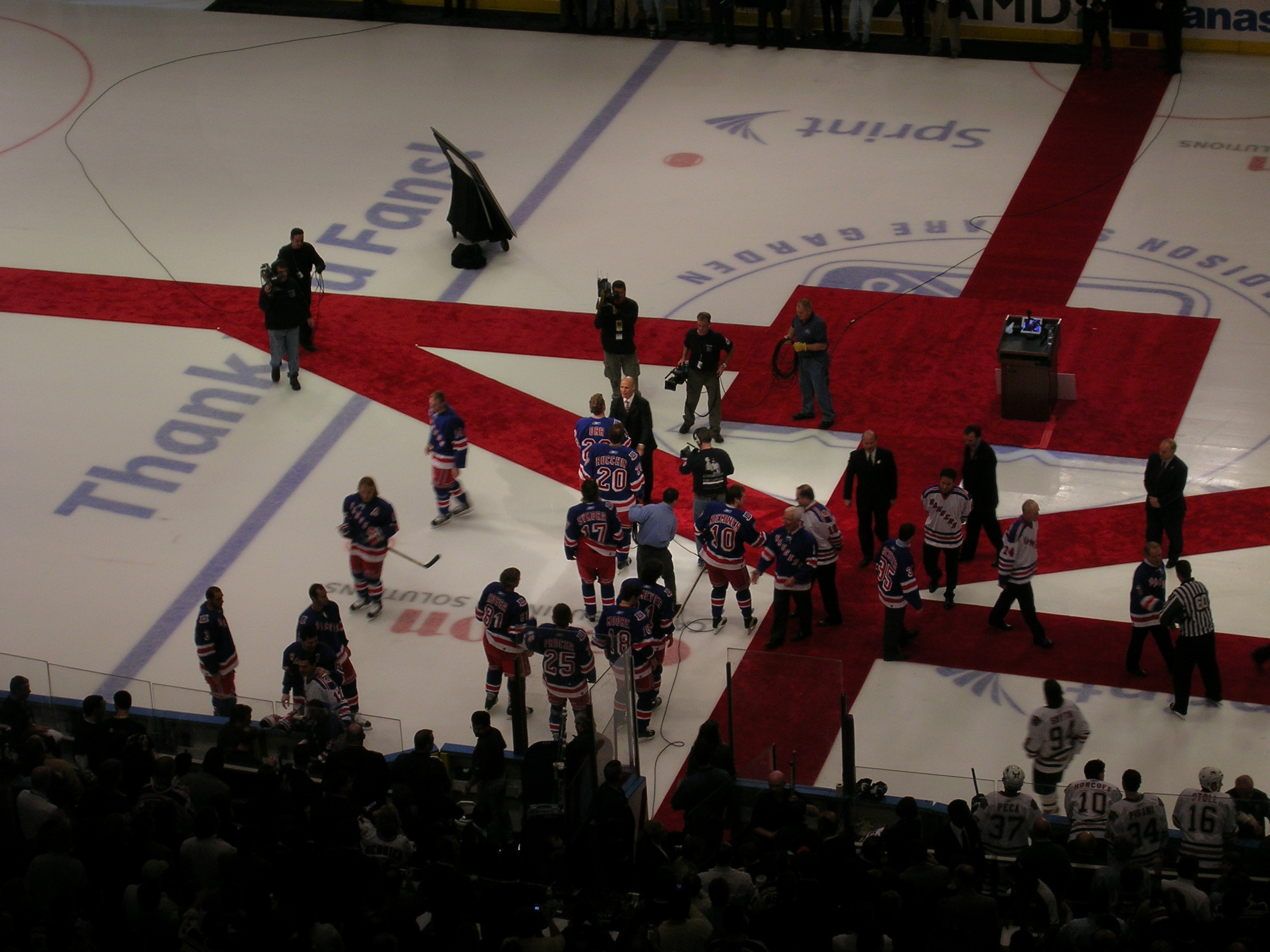 The retirement of Mark Messier Taken by me